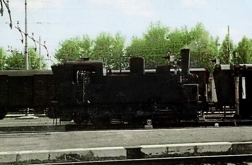 FS Class "835" 0-6-0T No.835 269 on acting as station pilot at Venice (Mestre) station, 07/65. Scanned from photograph taken with an Halina 35X camera.